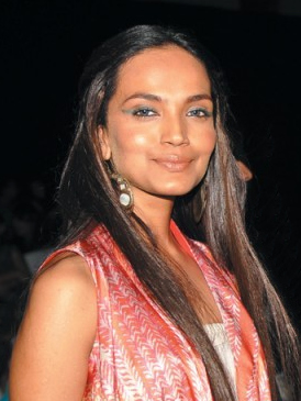 Aamina Sheikh (born as Aamina Abdul Sheikh, on August 29, 1981) is a Pakistani American actress and model.